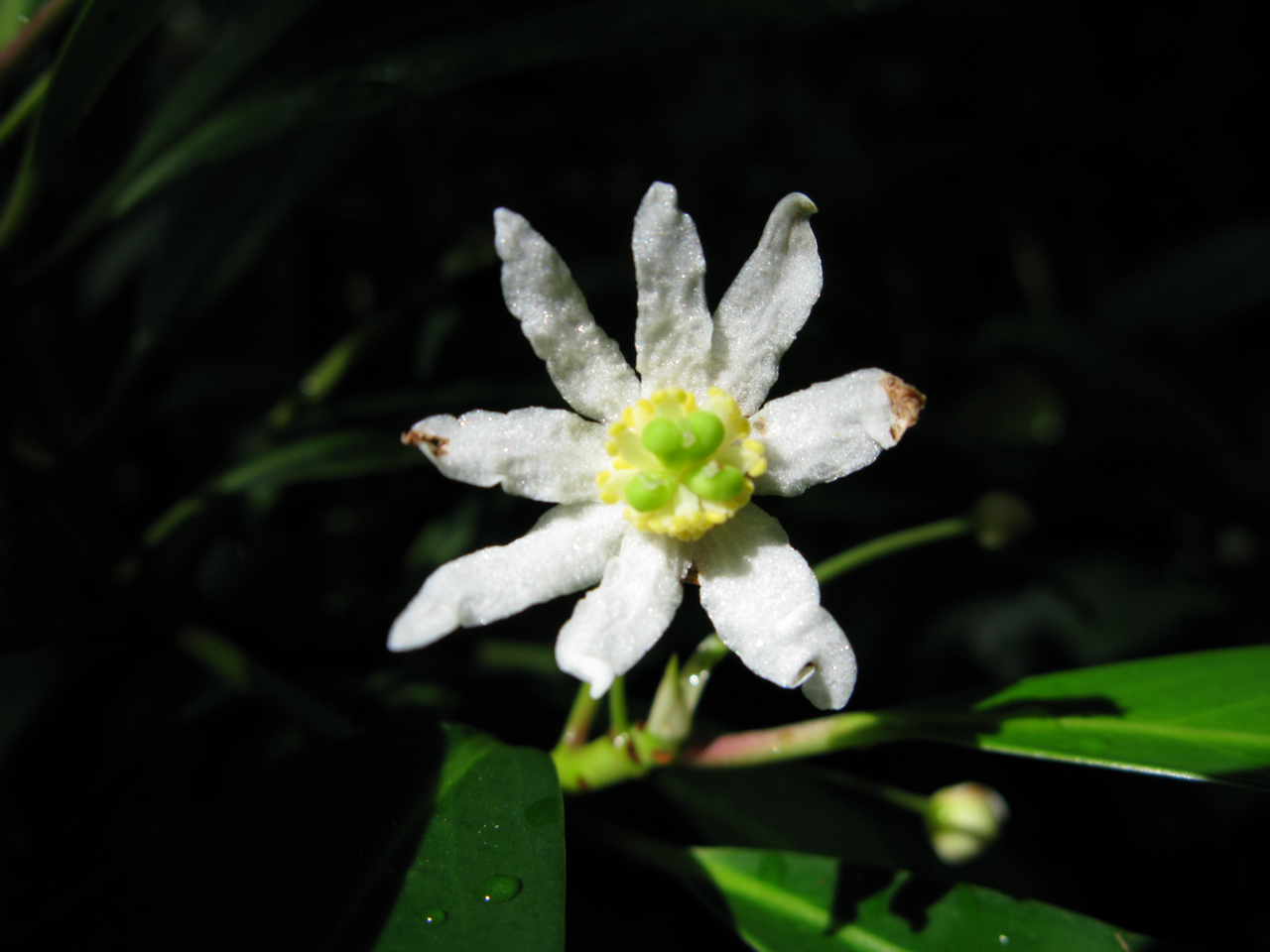 Drimys winteri (flower) Navarino Island - Tierra del Fuego - Patagonie - Chile